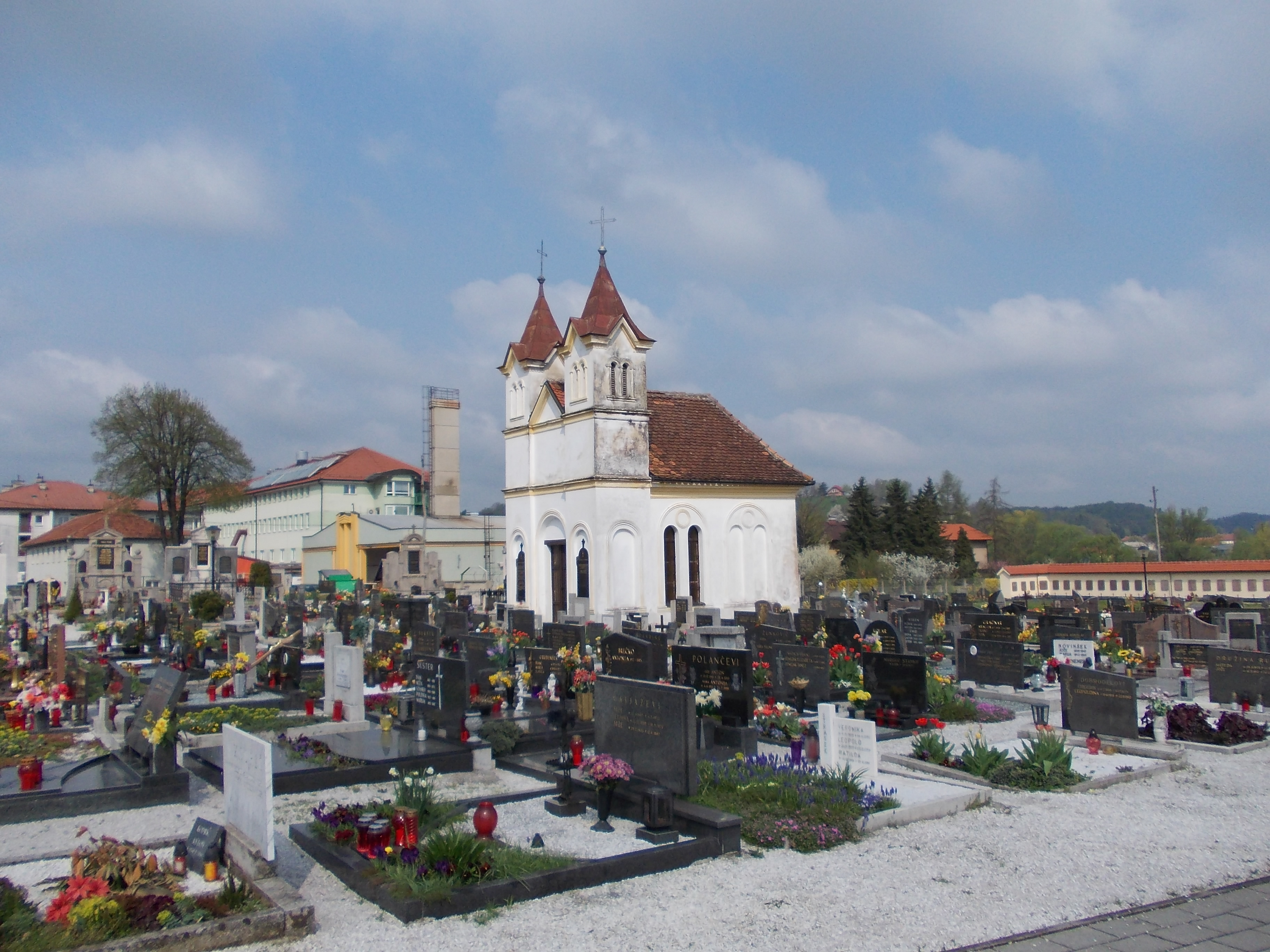 Seven Sorrows of Mary Chapel, Zgornje Poljčane